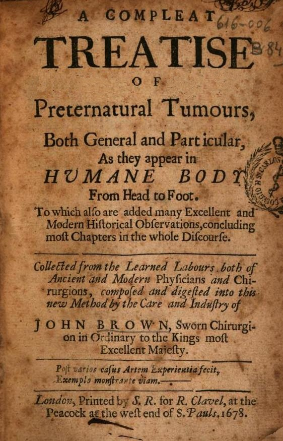 Title page of the book A Compleat Treatise of Preternatural Tumours by John Brown, 1678